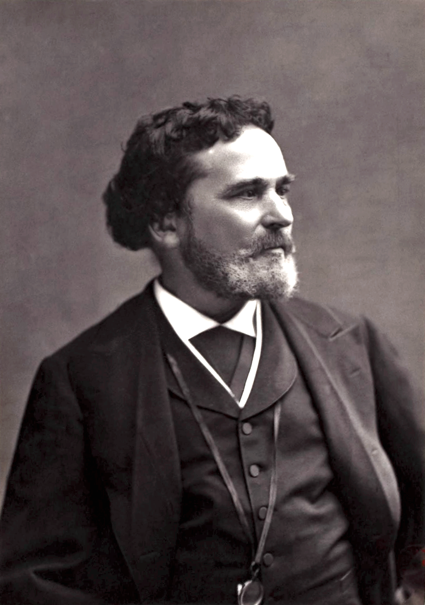 Photograph of Adolphe Laferrière (1806–1877), French actor.